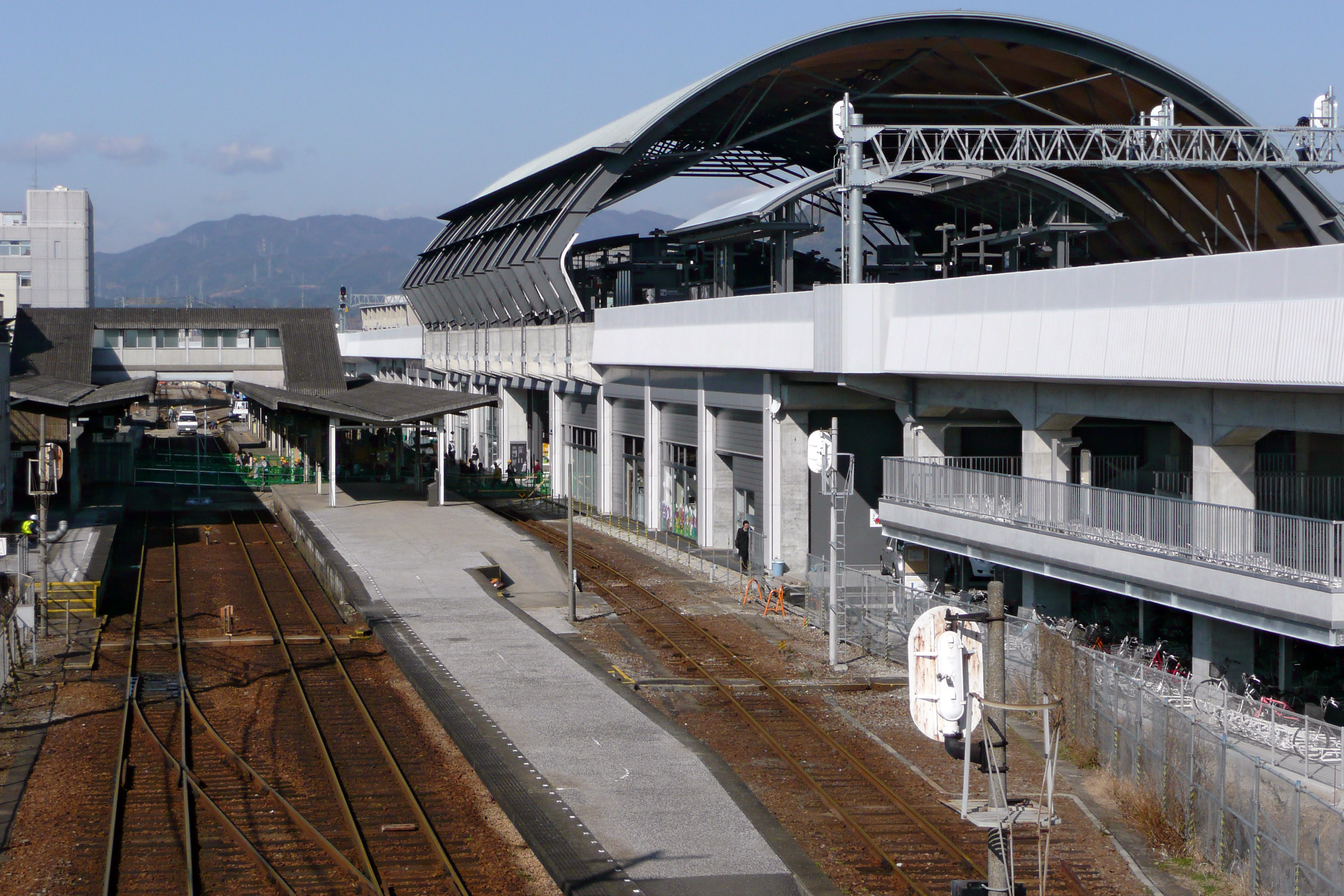 Kochi Station in Kochi, Kochi prefecture, Japan